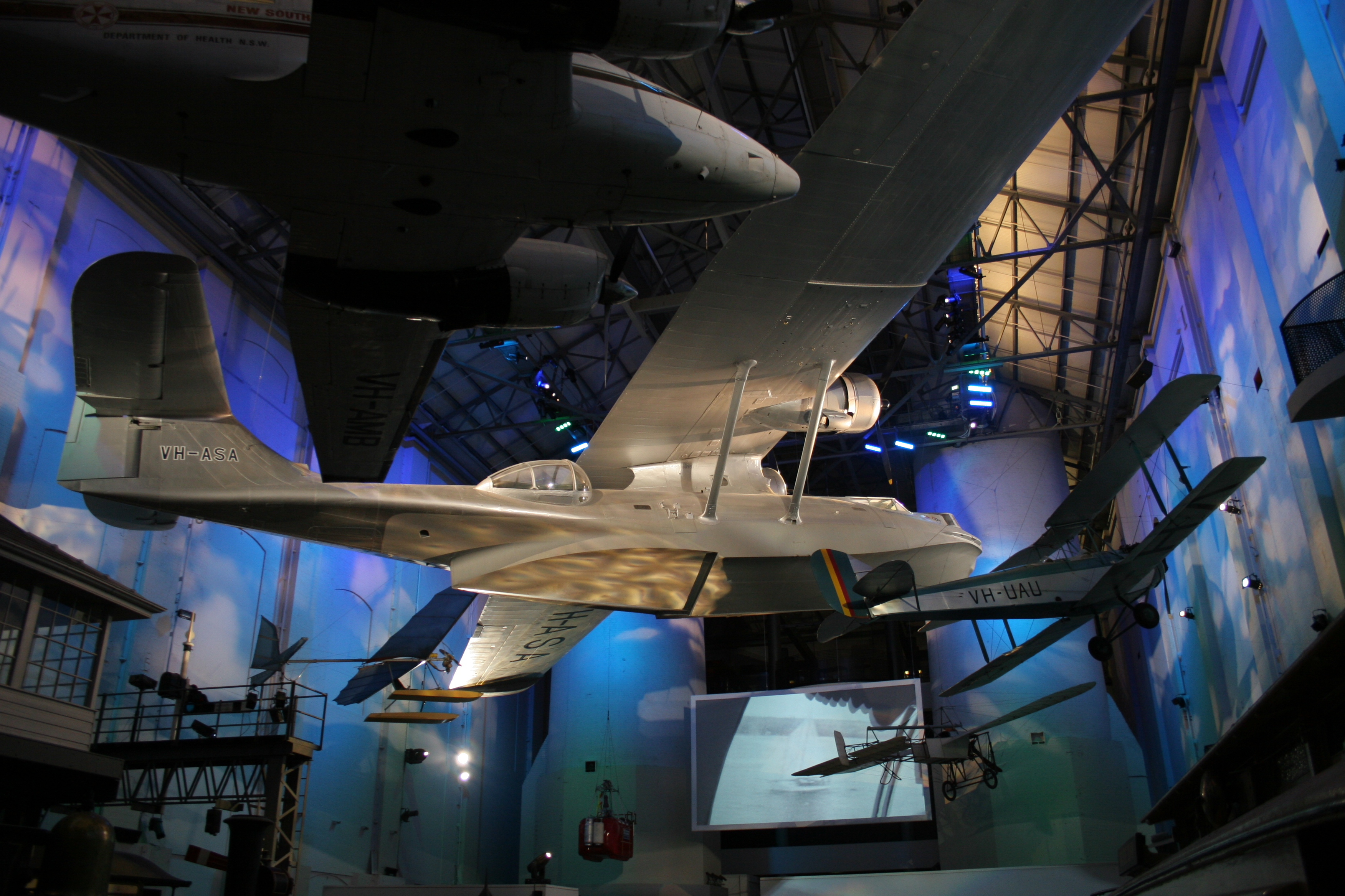 Sydney Powerhouse museum